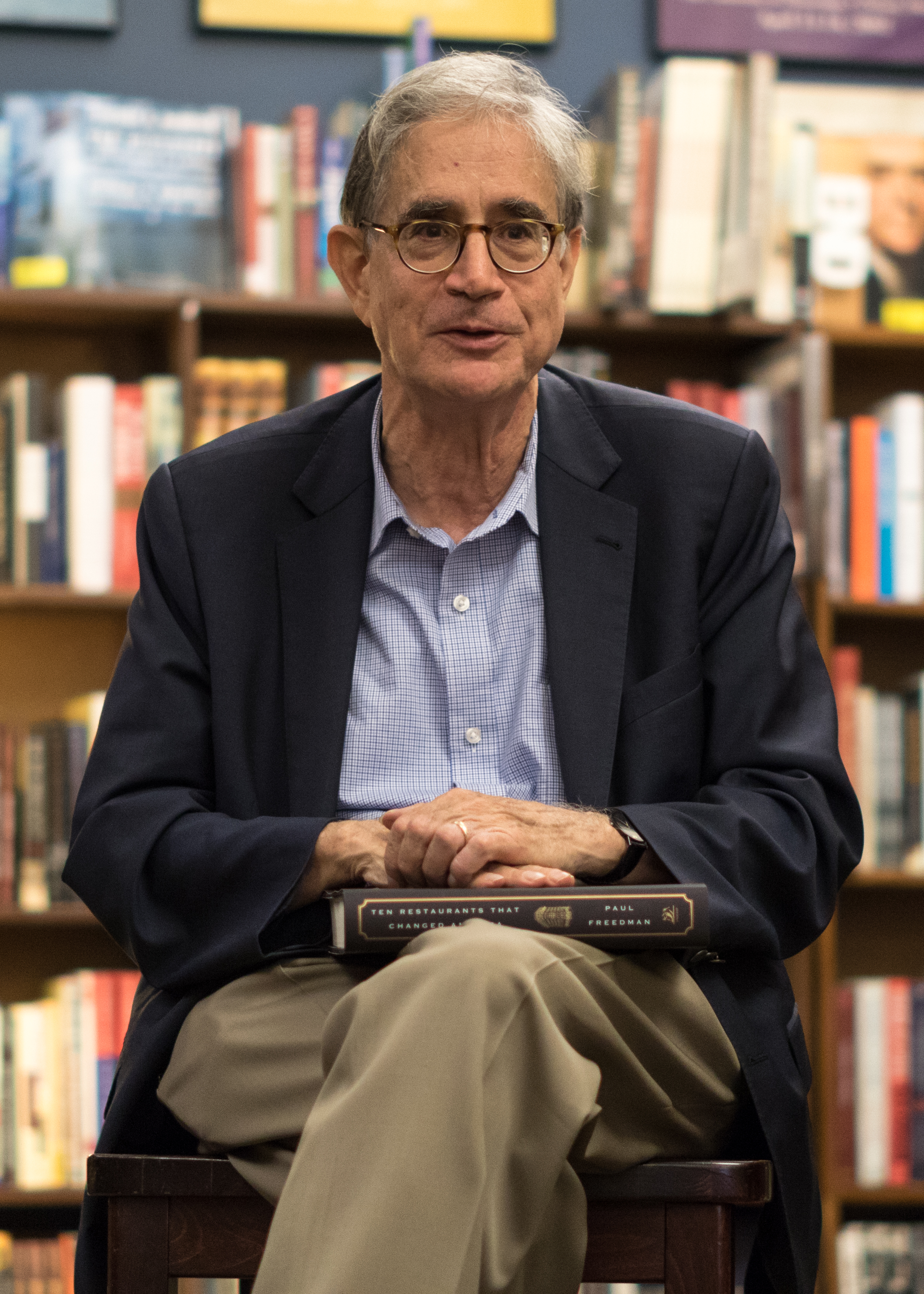 Yale historian Paul Freedman in conversation with John T. Edge during a book reading (Ten restaurants that changed America), at Square Books in Oxford, Mississippi